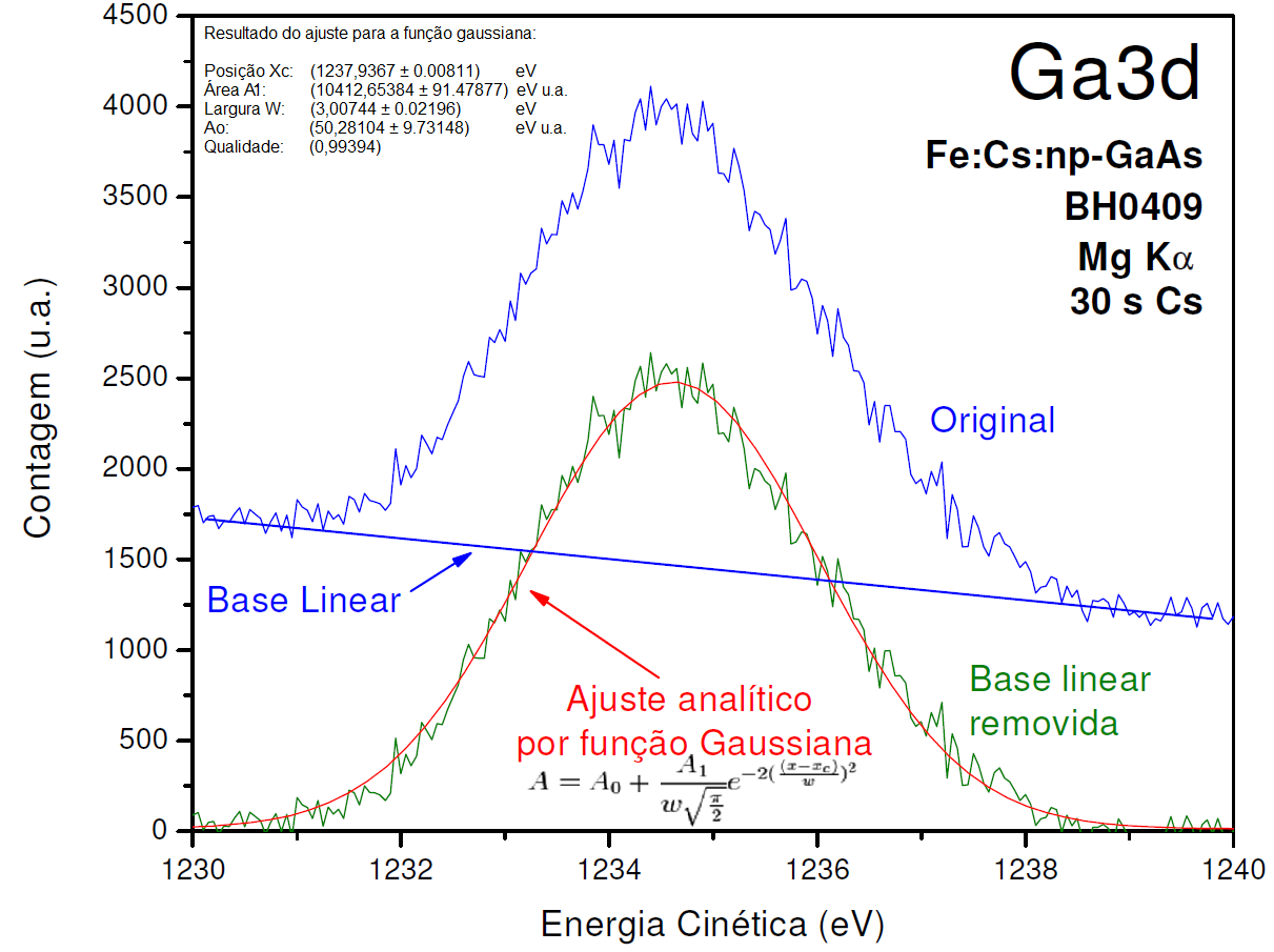 XPS: Cs on GaAs - Analysis of peak Ga3d by Gaussian function.